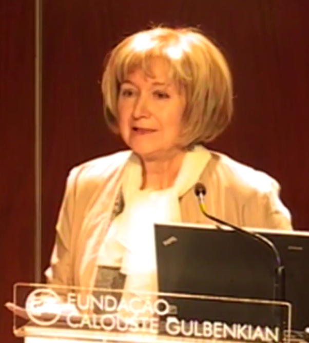 Lídia Jorge, Portuguese author.